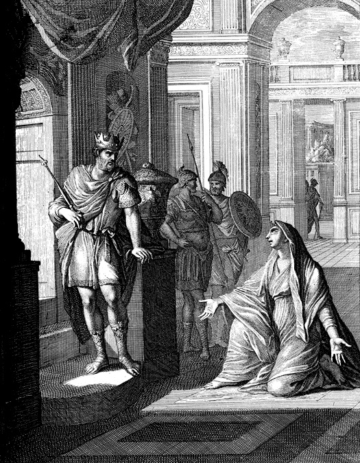 Woodcut of the narrative from 2 Samuel 14